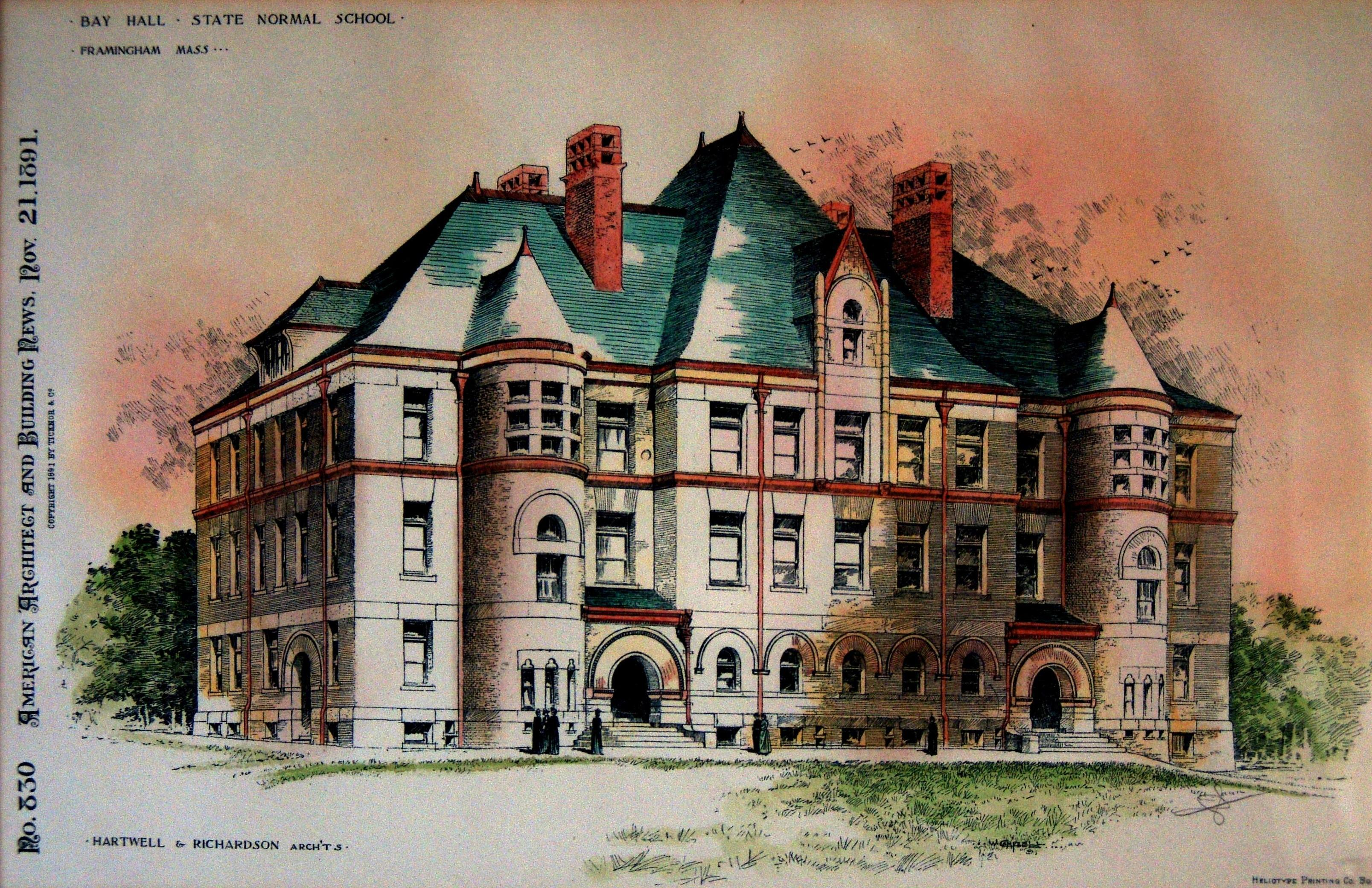 Framingham State University - May Hall 1891 Architectural Rendering Framingham State University - May Hall 1891 Architectural Rendering. User:Ipsingh Source: Taken by User:Ipsingh